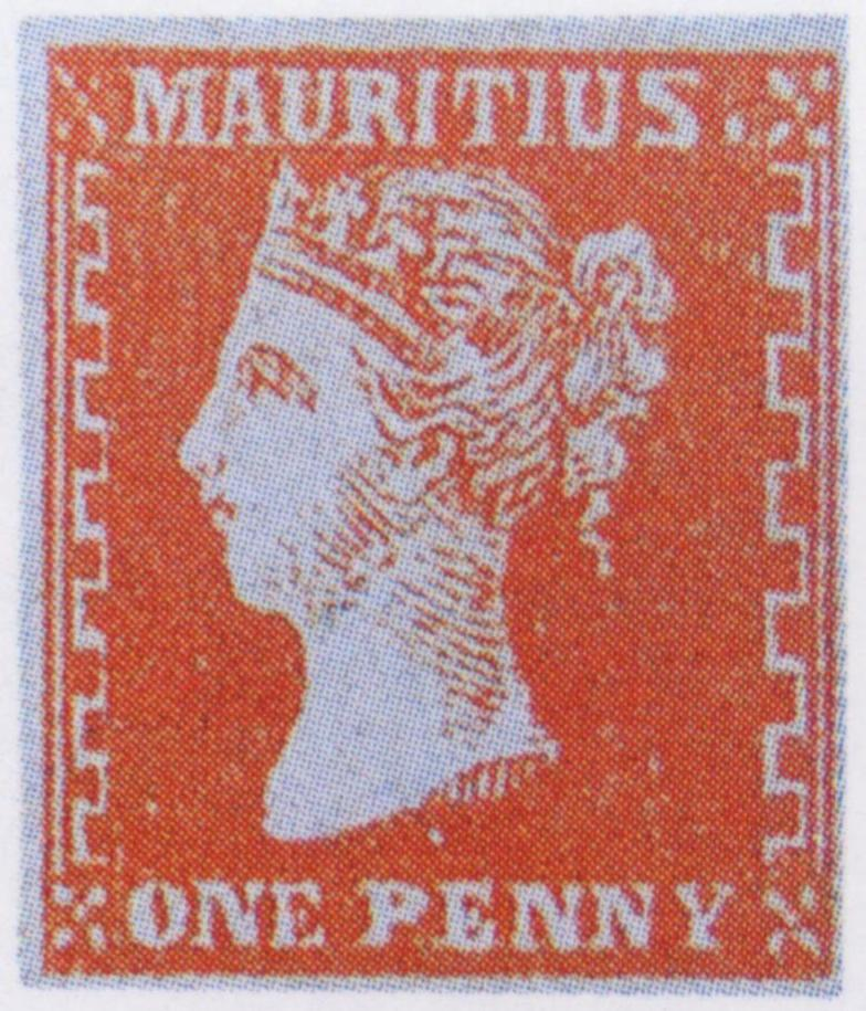 One Penny postage stamp from Mauritius, issued on December 12, 1859